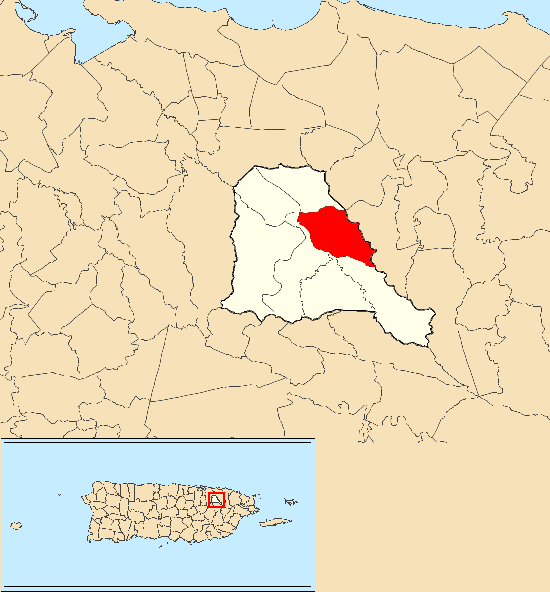 Dos Bocas, Trujillo Alto, Puerto Rico locator map